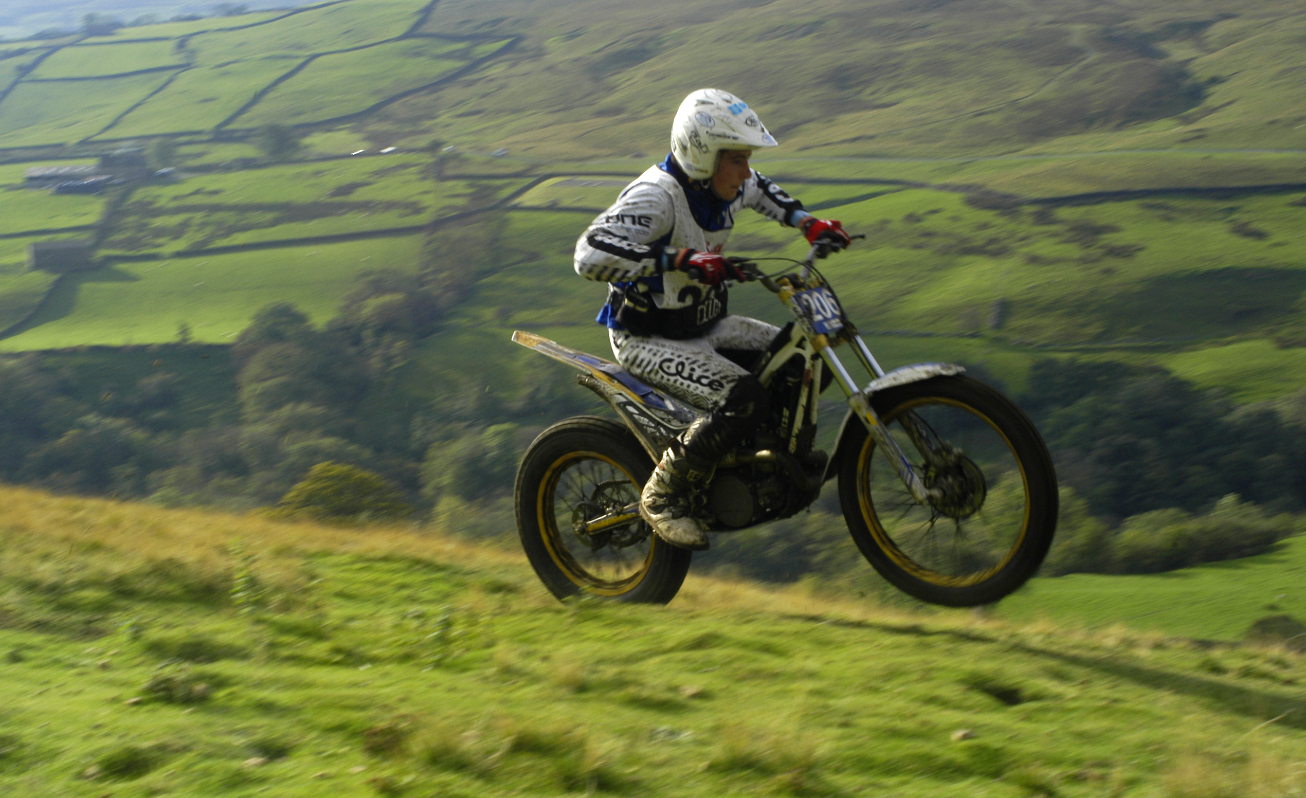 Jonathan Richardson winner Scott Trial 2011 - 55 minutes from the start.